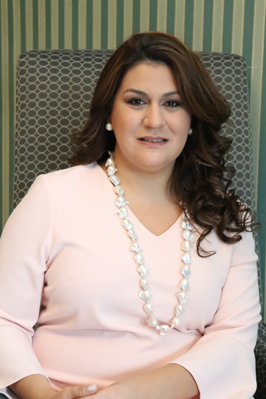 Ministra, María Dolores Agüero Lara en su despacho en la Secretaría de Relaciones Exteriores y Cooperación Internacional